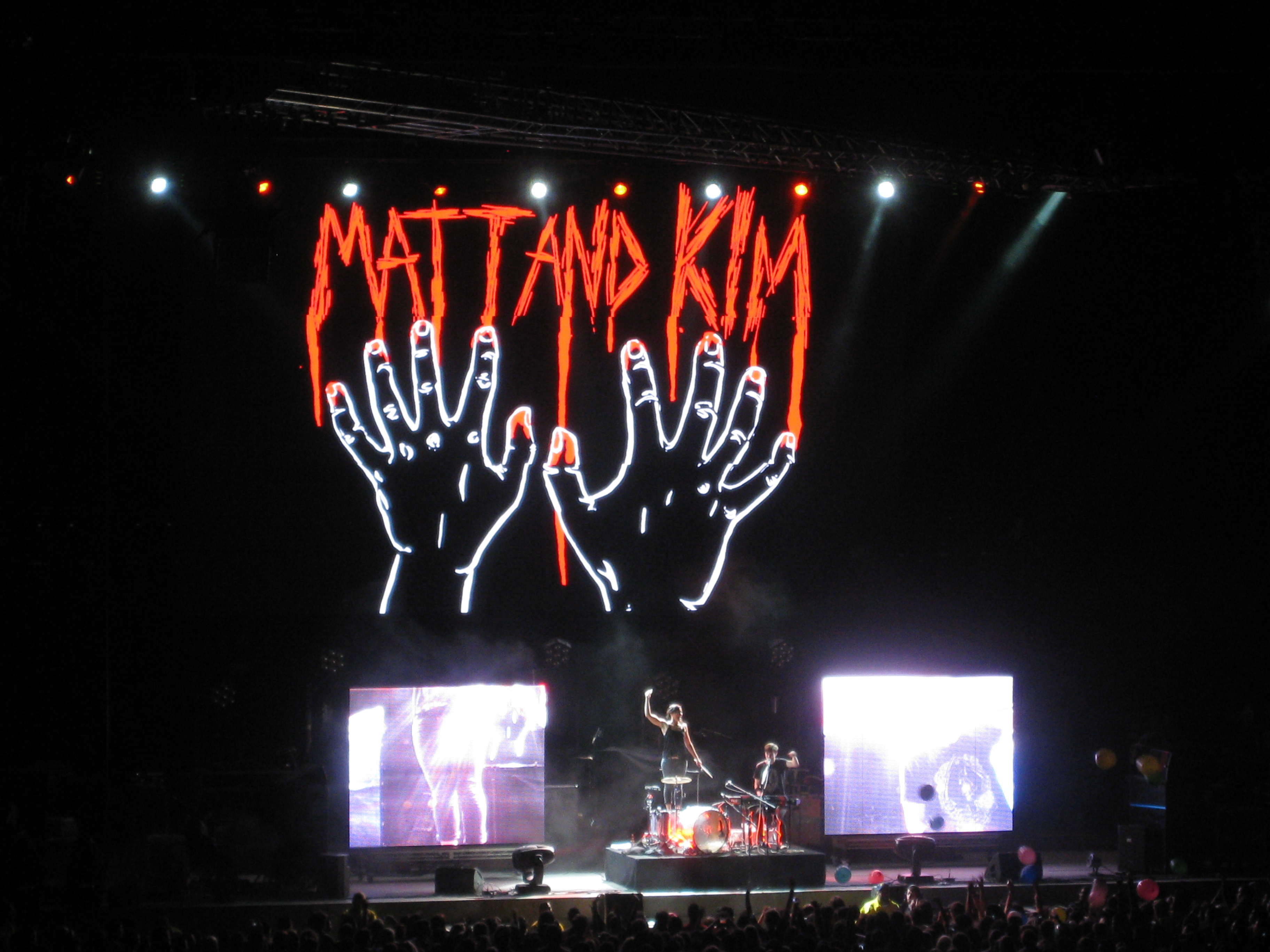 Matt & Kim performing October 6, 2011 at the Cricket Wireless Cricket Wireless Amphitheatre in Chula Vista, California. Singer/drummer Kim Schifino (left) and singer/keyboardist Matt Johnson (right).